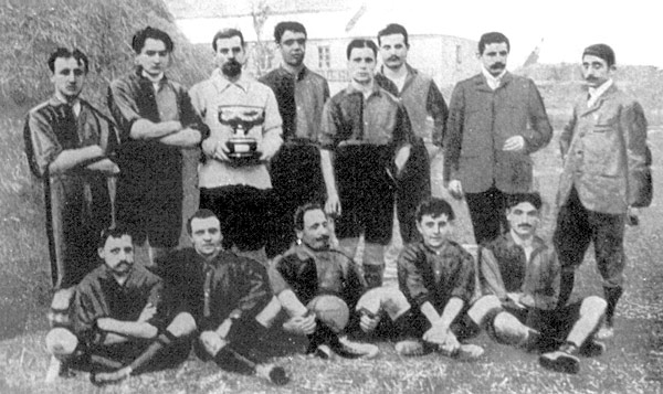 Italian Football Champion 1903 (CFC Genoa) From Left to Right: Back: Edoardo Pasteur, Karl Senft, James Richardson Spensley, Howard Passadoro, Paolo Rossi, Étienne Bugnion, Sutter (referee), Parodi (linesman) Front: Joseph William Agar, Giovanni Foffani, Henri Arthur Dapples, Montaldi, Ernesto "Enrico" Pasteur